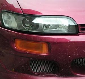 One of the first Toyota equipped with projector head lamps and a set of conventional headlights for high beam housed in the same headlight casing.